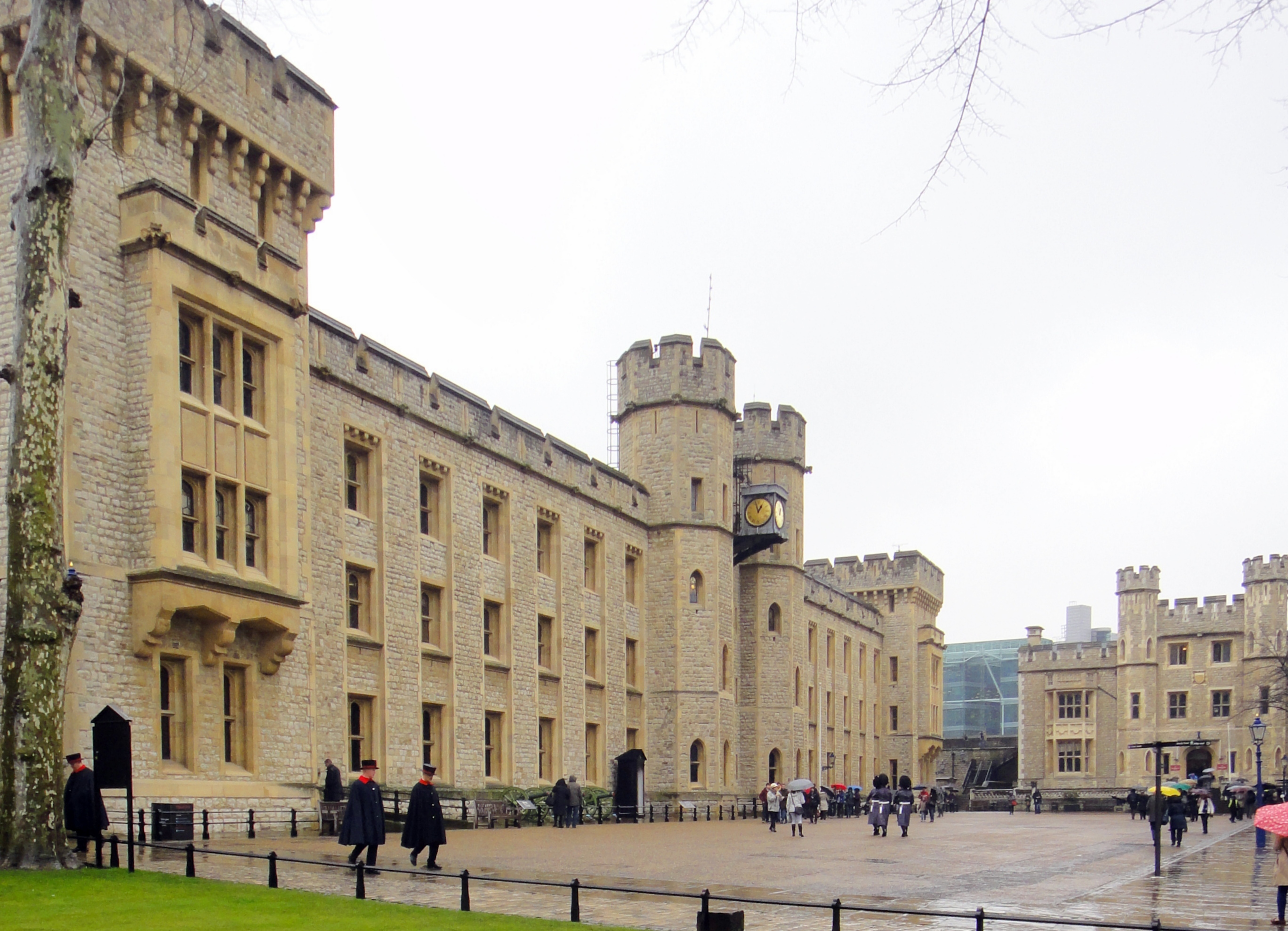 Waterloo Barracks, Tower of London